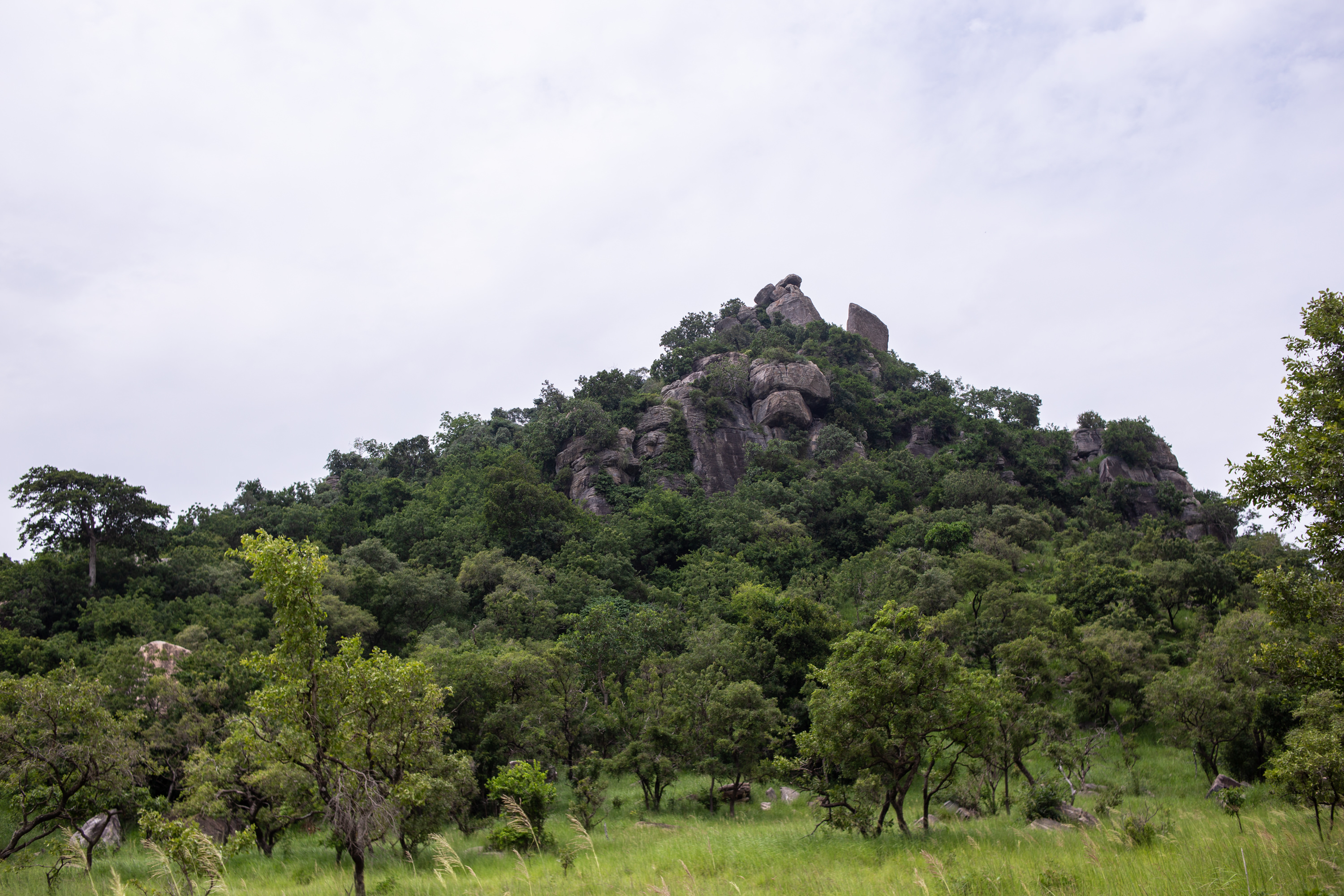 Sites from Shai Hills, Ghana.